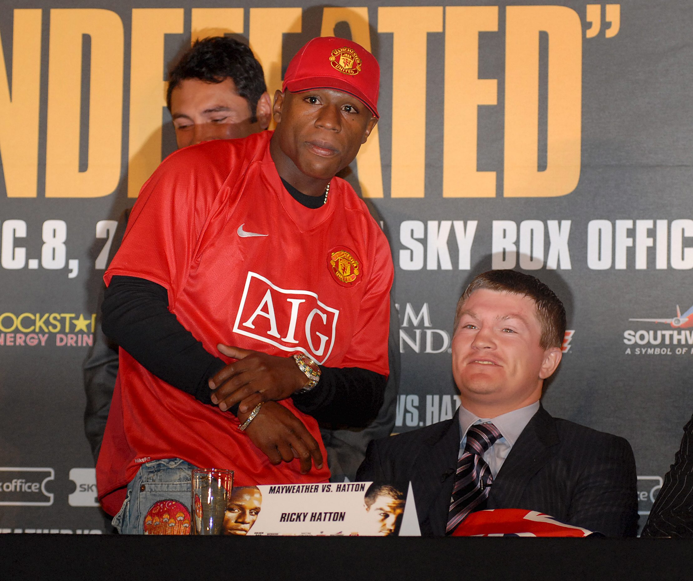 Ricky Hatton vs Floyd Mayweather, fight promotion, Manchester Town Hall (21/9/07).. Pic - Floyd Mayweather speaks to the press wearing a Man United shirt, in an attempt to wind up City fan Ricky..